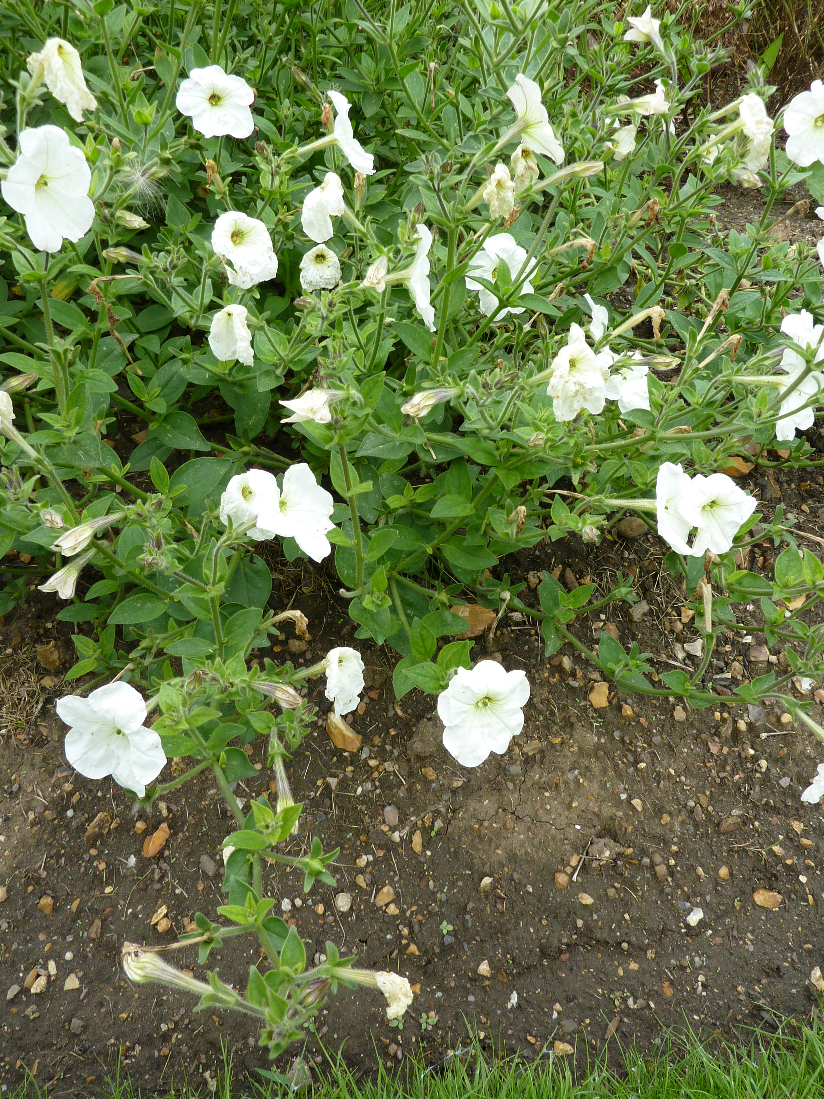 Petunia axillaris, Cambridge University Botanic Garden